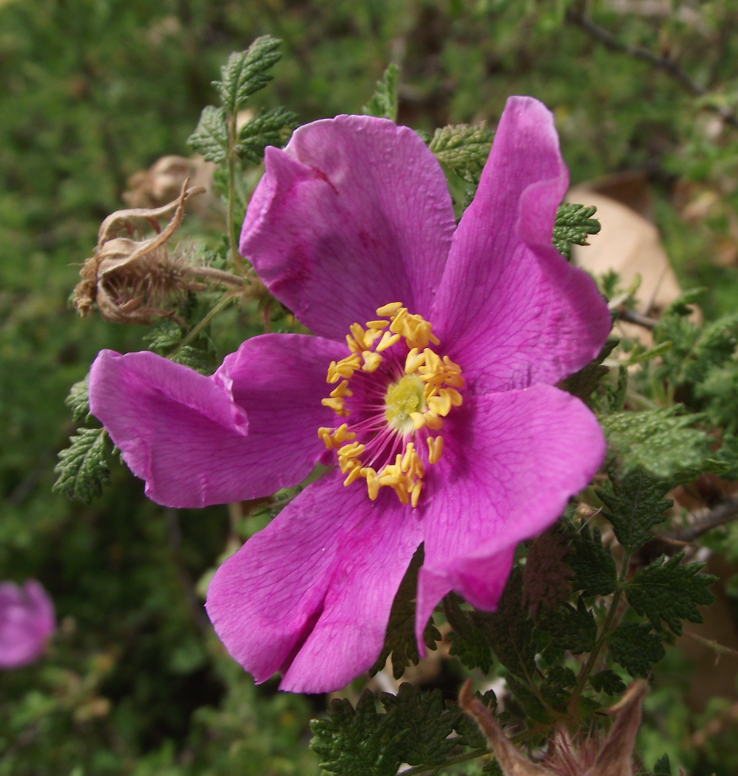 Rosa minutifolia at the San Diego Wild Animal Park, California, USA. Identified by sign.